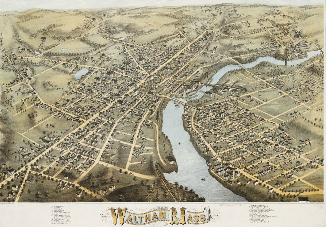 View of Waltham, Massachusetts Publisher: O.H. Bailey & Co. Date: 1877 Dimension 51.0 x 66.0 cm. Scale: Not drawn to scale